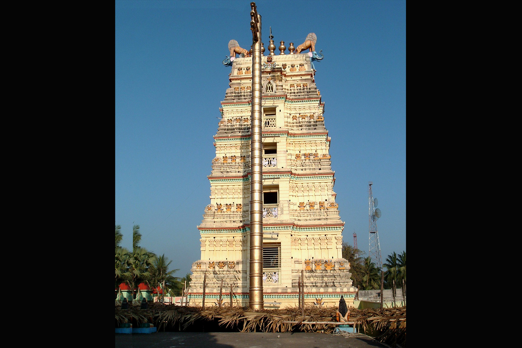 Achanta, Westgodavari Village of Andhrapradesh